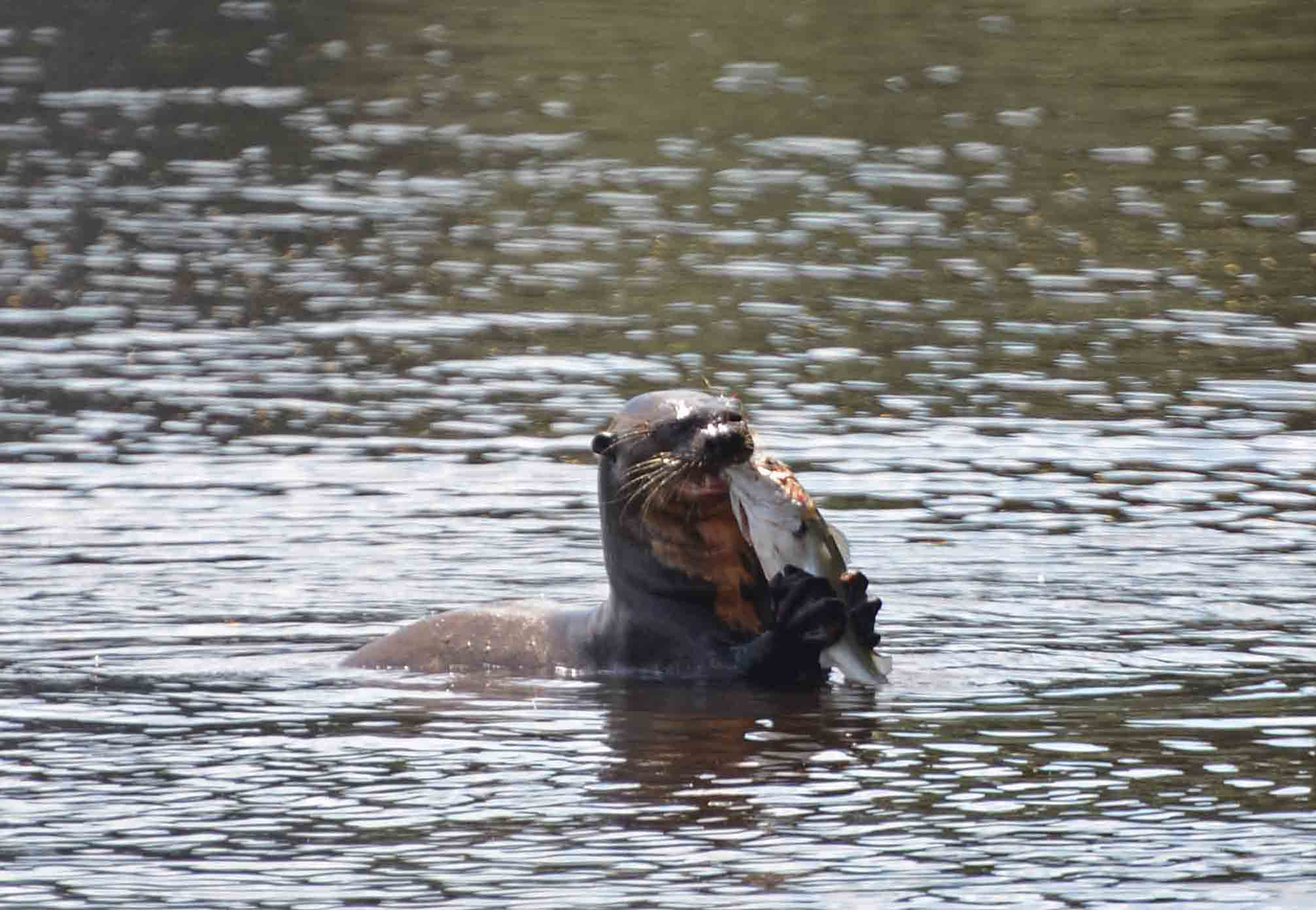 Giant river otter eating a fish in Madre de Dios, Peru